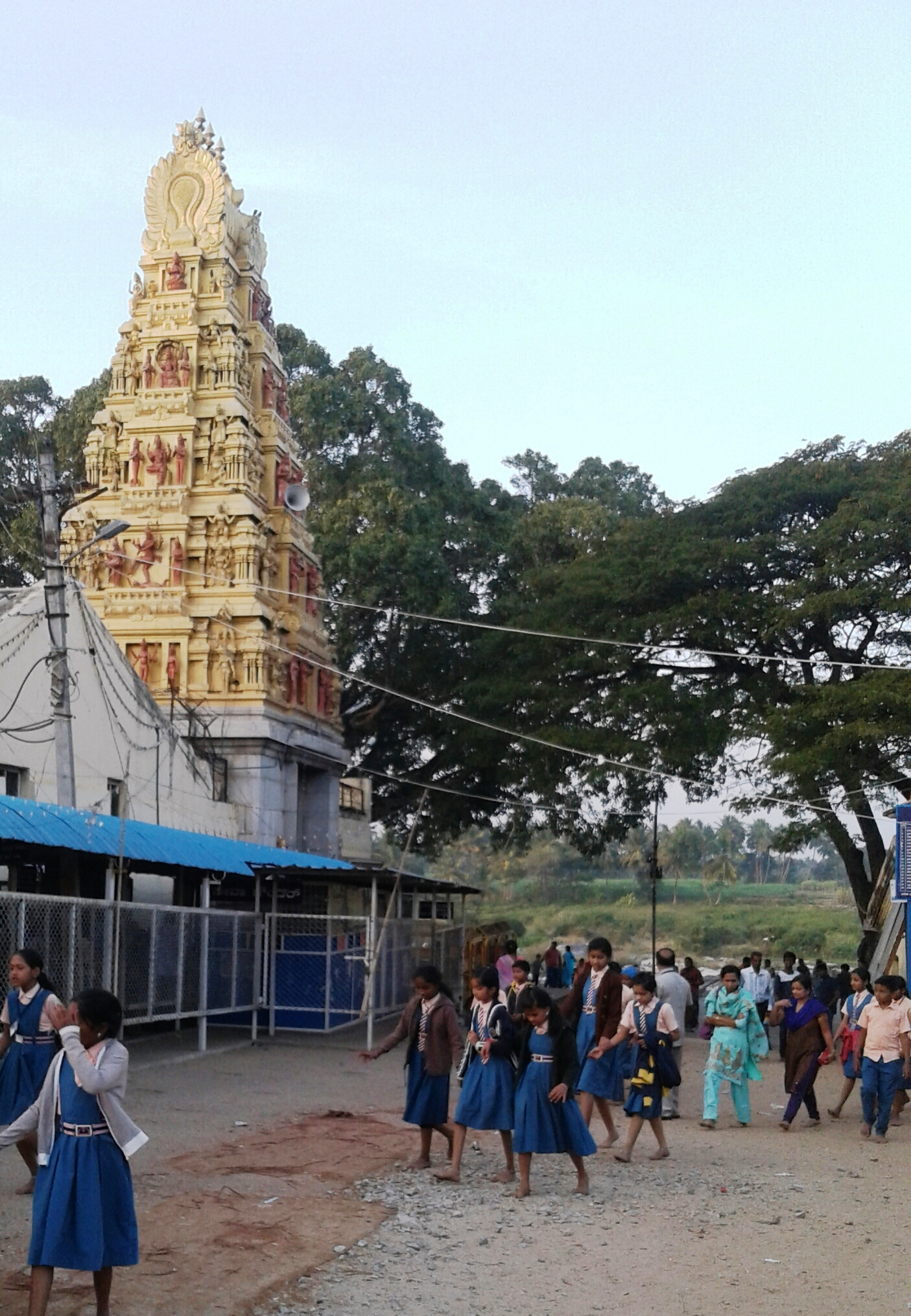 Srirangapatna, Mandya district, Karnataka state, India.